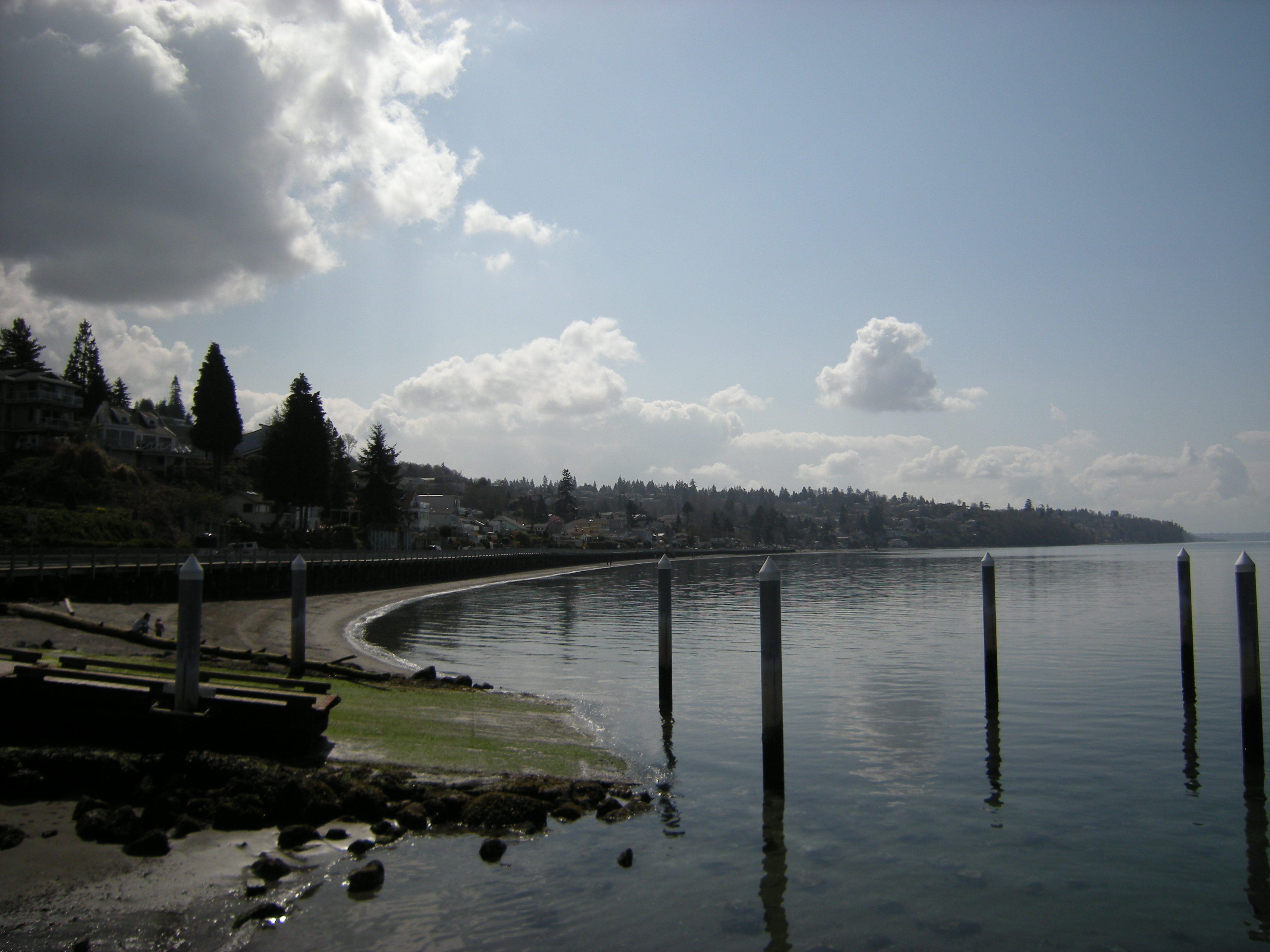 Redondo Beach, Des Moines, Washington. Looking south from fishing pier.